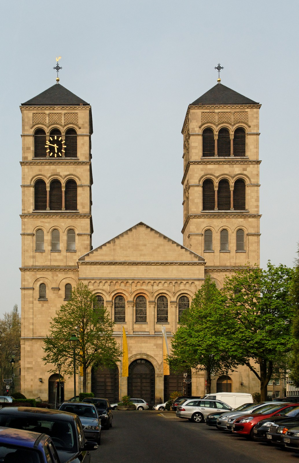 Saint Paulus in Düsseldorf-Düsseltal, Germany